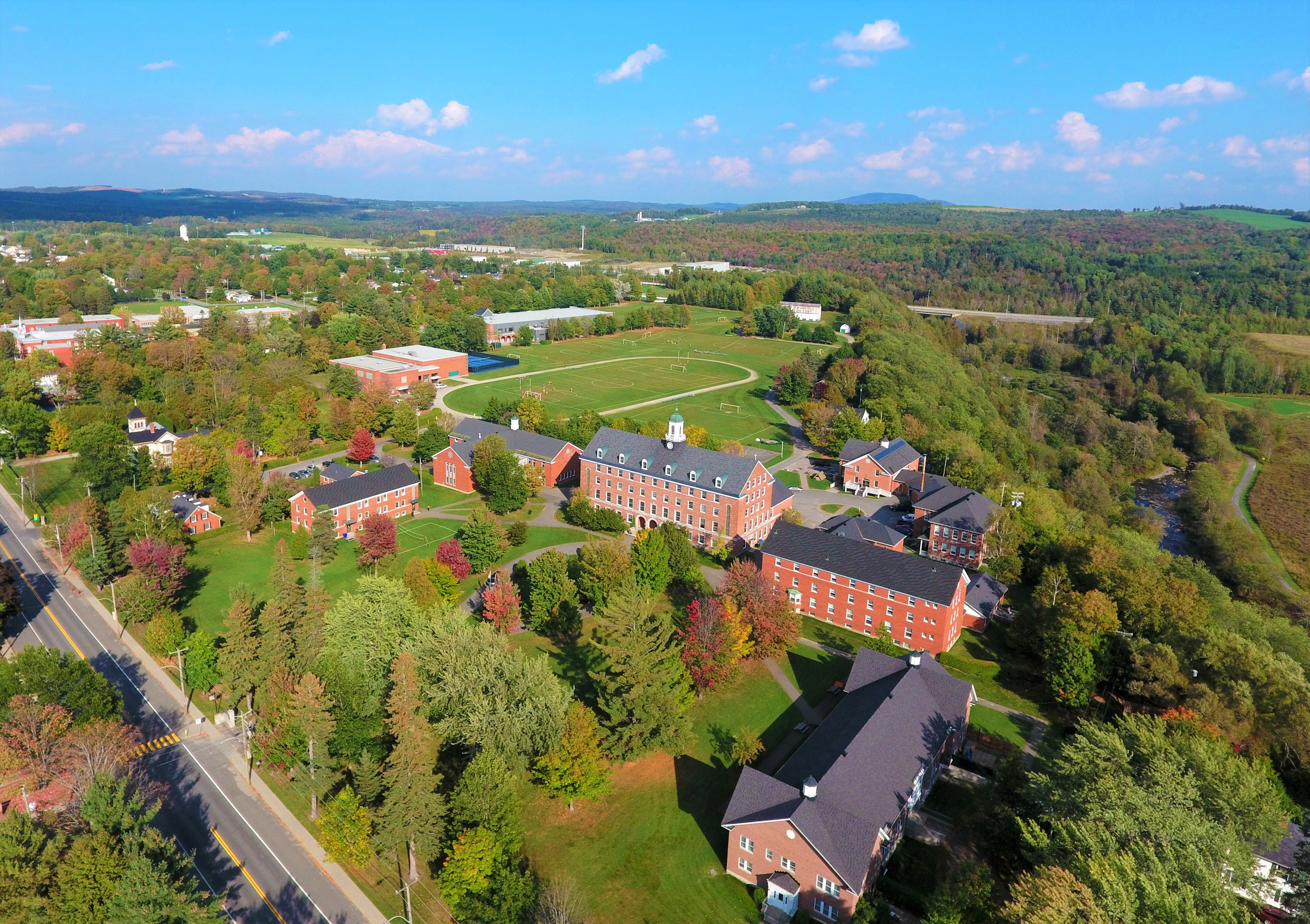 Aerial view of Stanstead College, a private boarding and day school in the Eastern Townships of Quebec near the Vermont border.